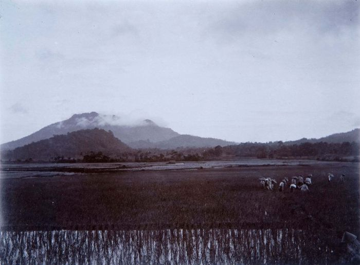 Ricefields at the foot of a mountain, Mandalawangi